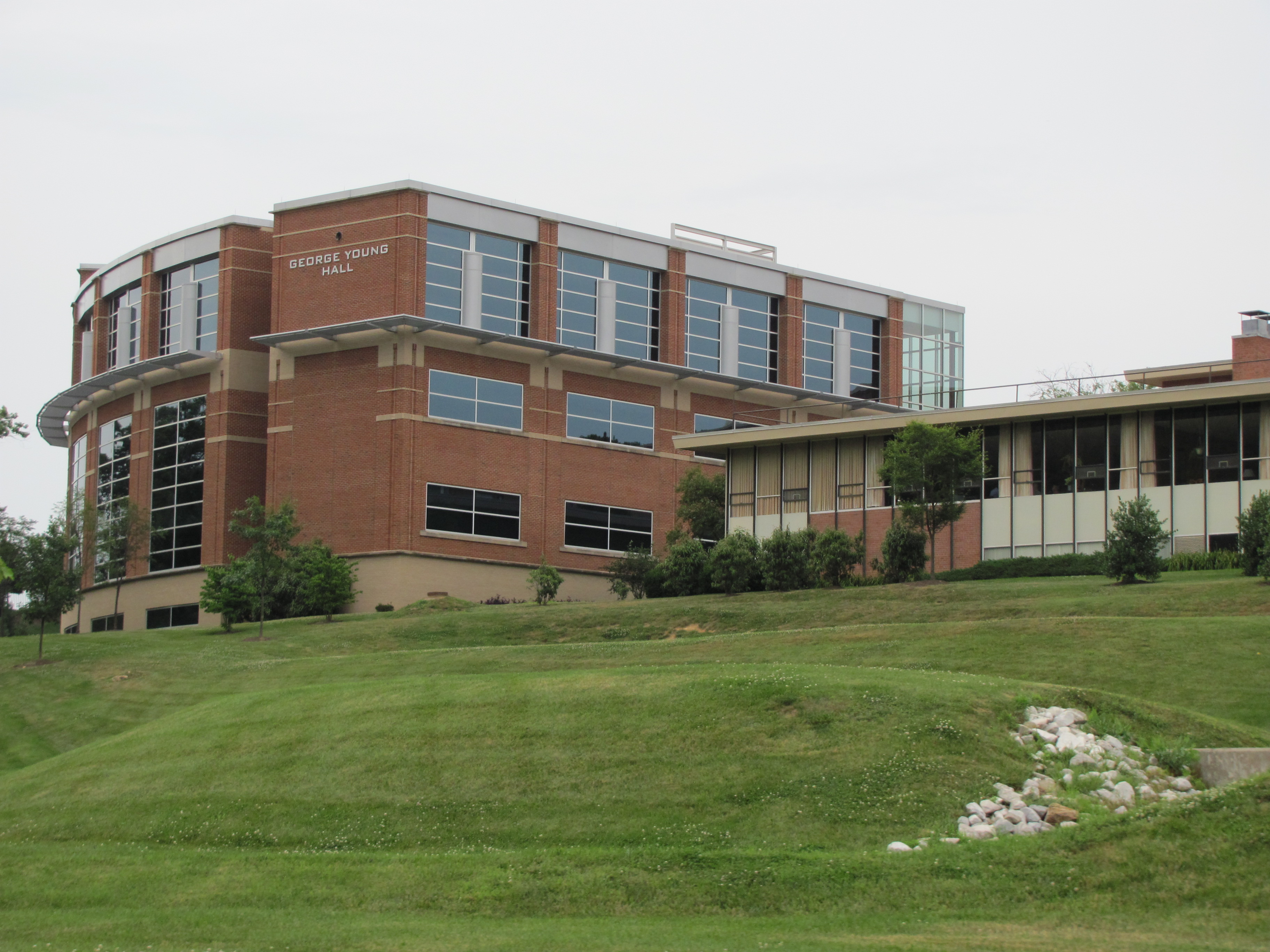 George Young Hall at Calvert Hall College High School, Towson, Maryland